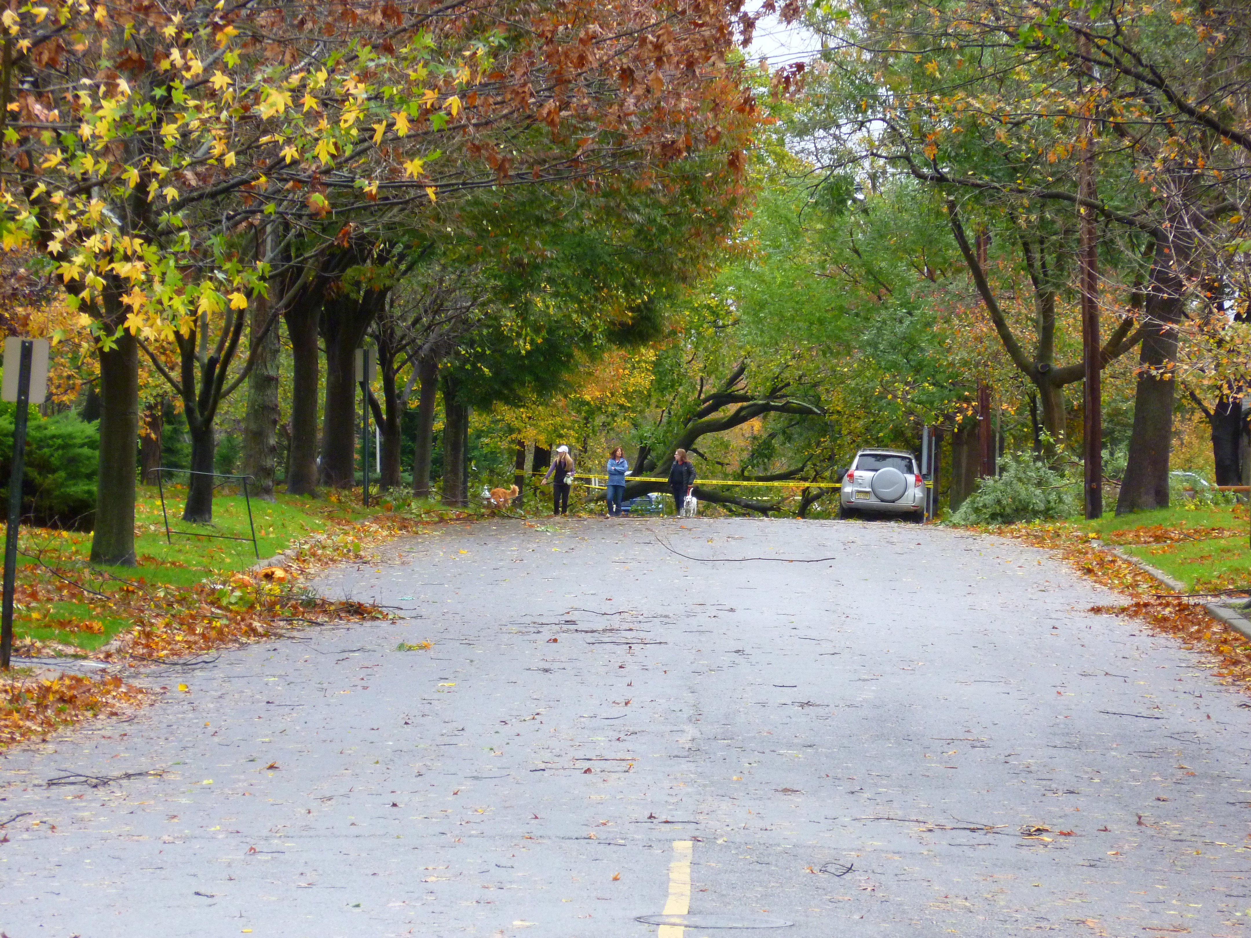 A fallen tree from Hurricane Sandy. Ridgewood, NJ.